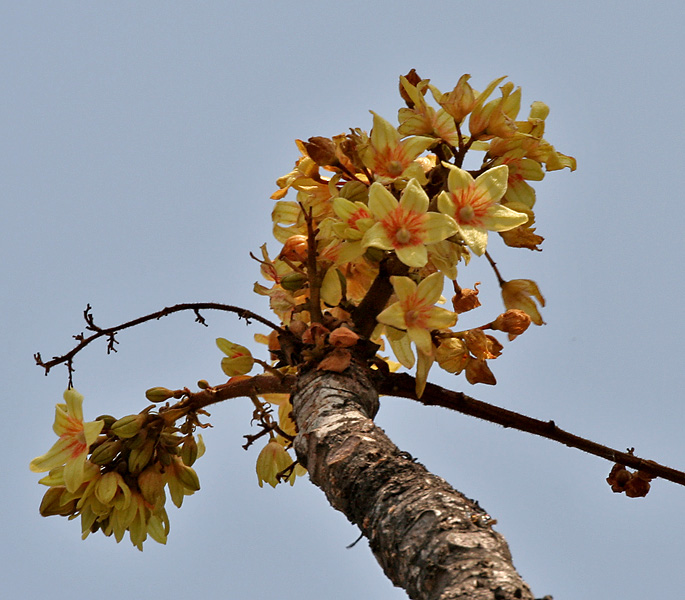 Sterculia villosa at Jayanti in Buxa Tiger Reserve in Jalpaiguri district of West Bengal, India.